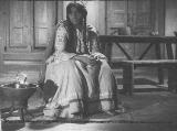 Screenshot of 1941 Argentine film Los afincaos. Image needed to support article entry.